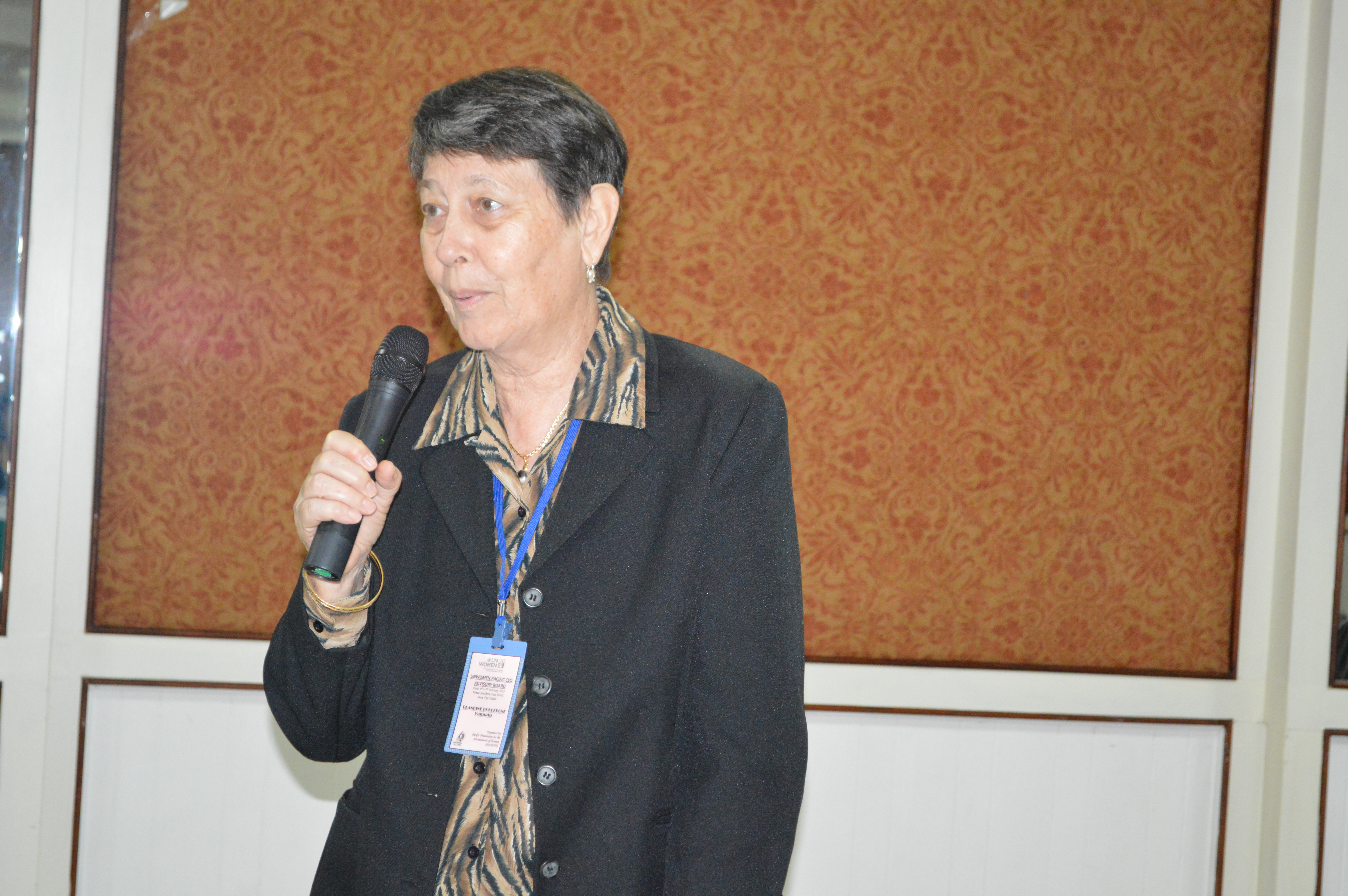 The Civil Society Advisory Group (CSAG) inaugural meeting which was attended by members of the civil society from 11 Pacific Island countries representing the 3 sub regions of Melanesia, Micronesia and Polynesia. The meeting took place at the Southern Cross Hotel Conference Room in Fiji from the 6-7 February 2013. Photo:UN Women